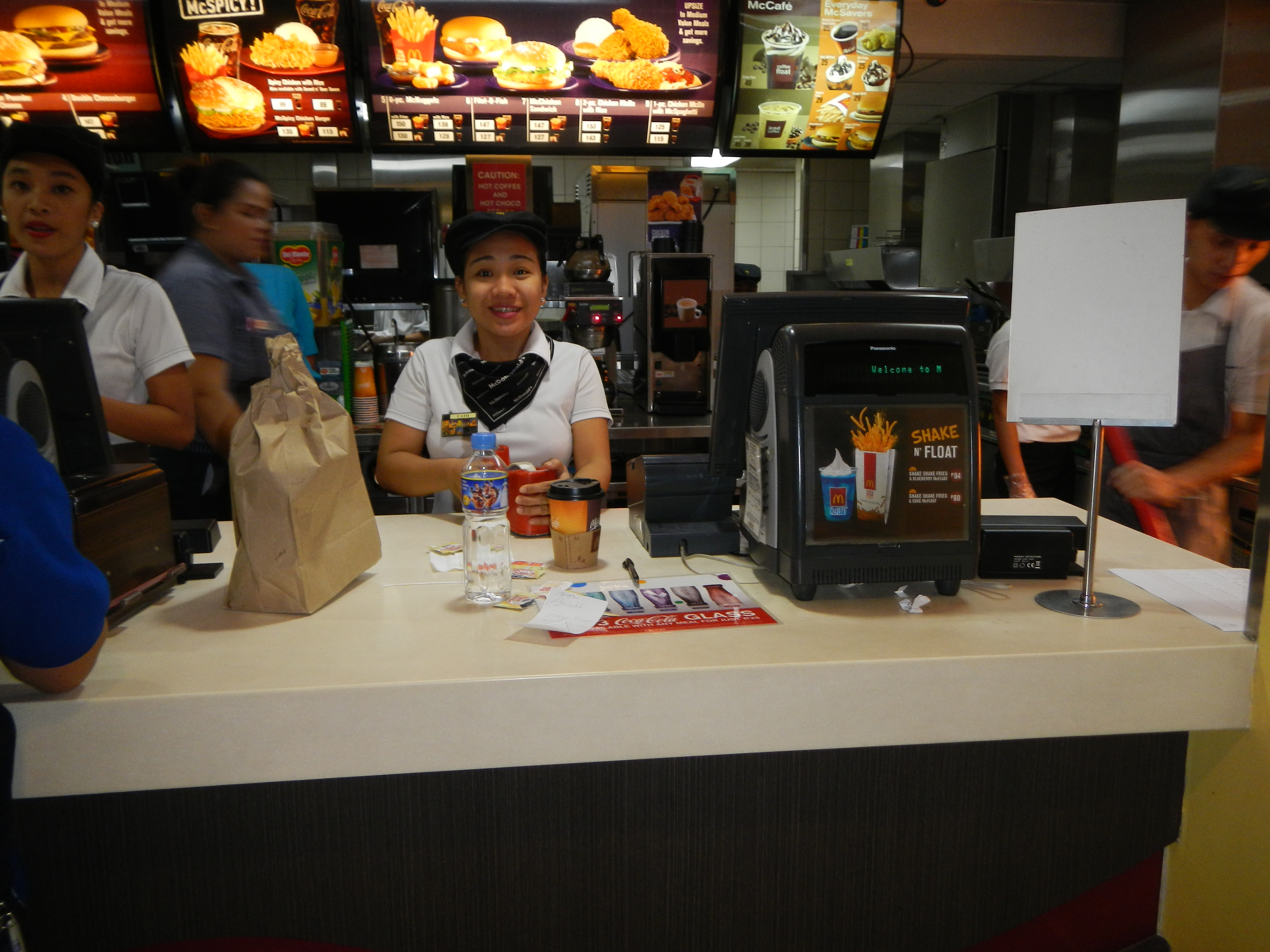 McDonalds, Cubao Quezon City